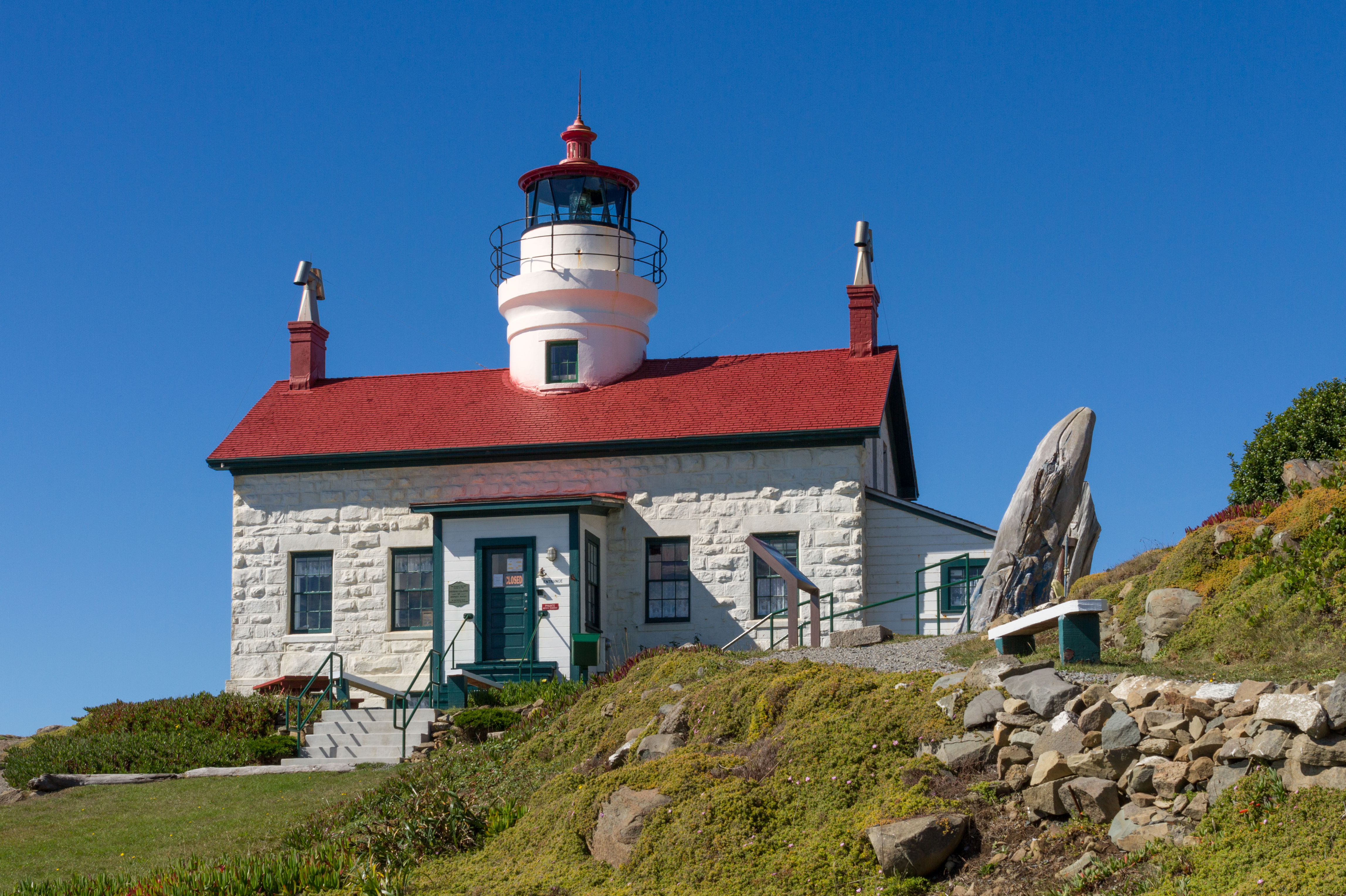 Battery Point Light, Crescent City, California.